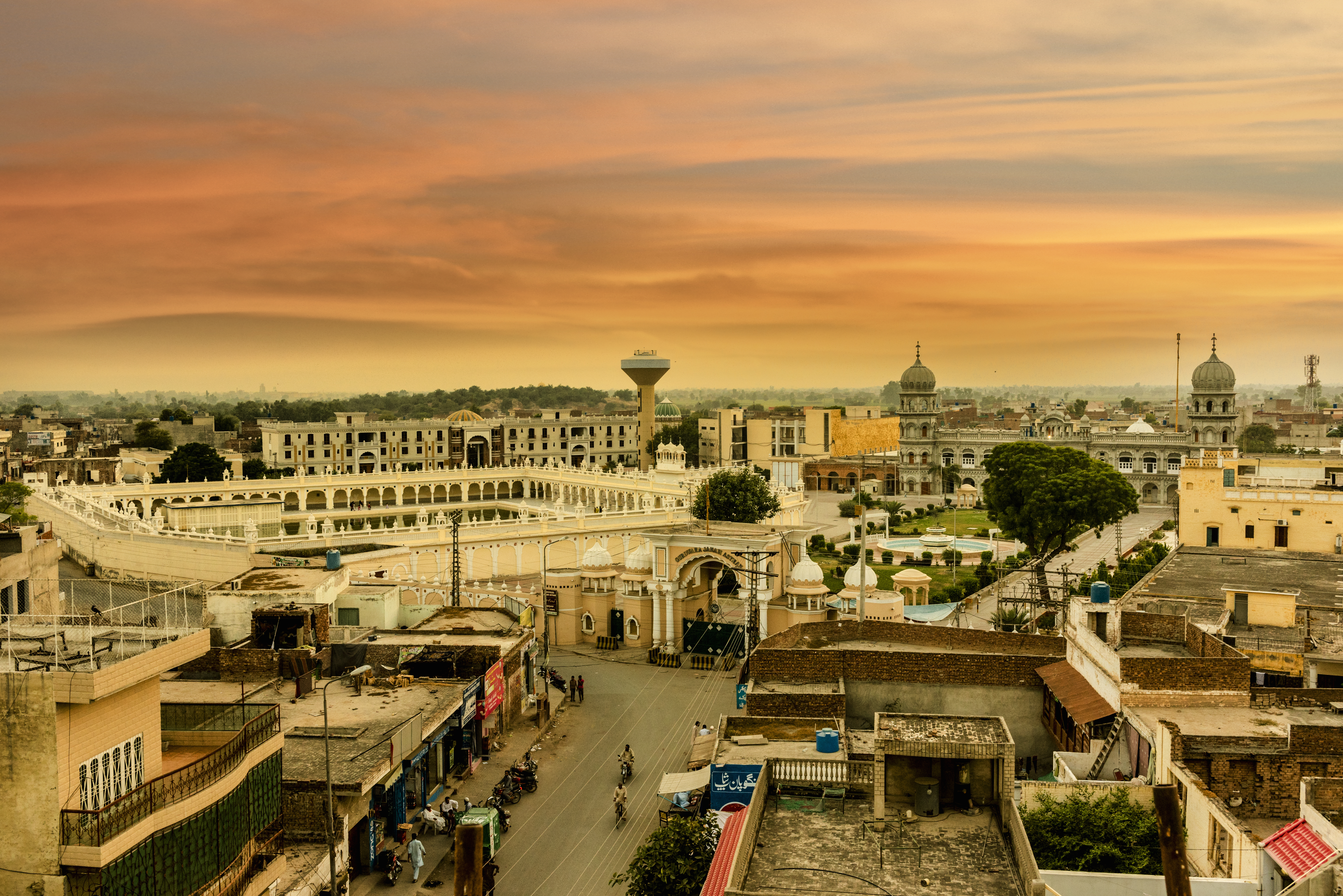 Gurdwara Janam Asthan This is a photo of a monument in Pakistan identified as the PB-U-44